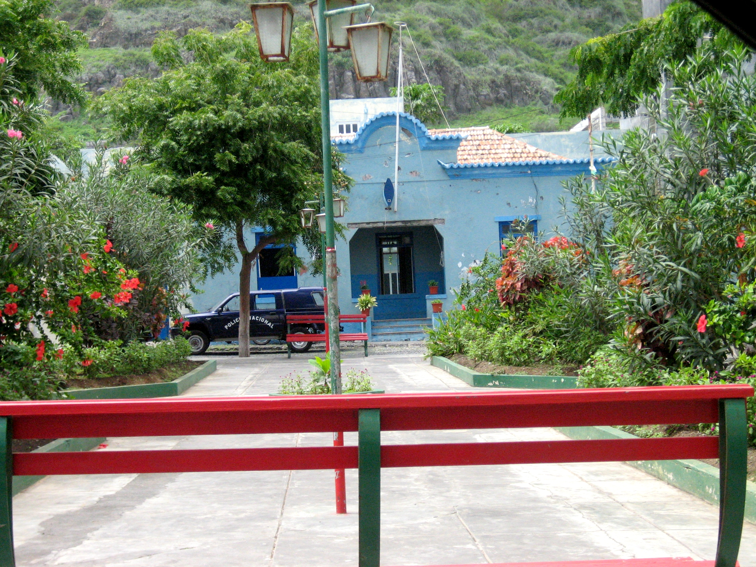 Detail of Praça do Entroncamento within the city center of Mosteiros, Fogo, Cape Verde.